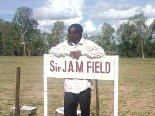 Field